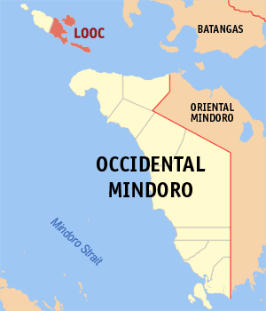 Map of Occidental Mindoro showing the location of Looc